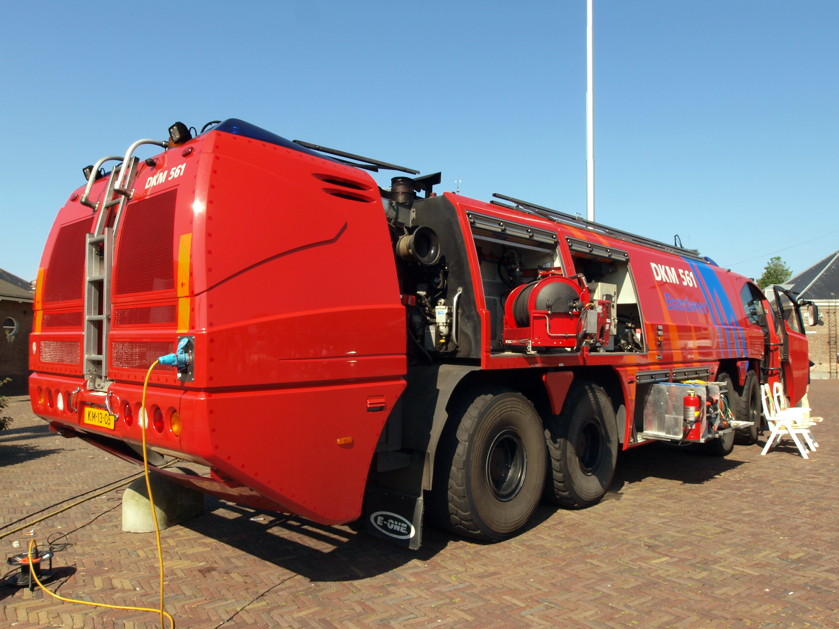 Photographed at Den Helder, The Netherlands. OLYMPUS DIGITAL CAMERA